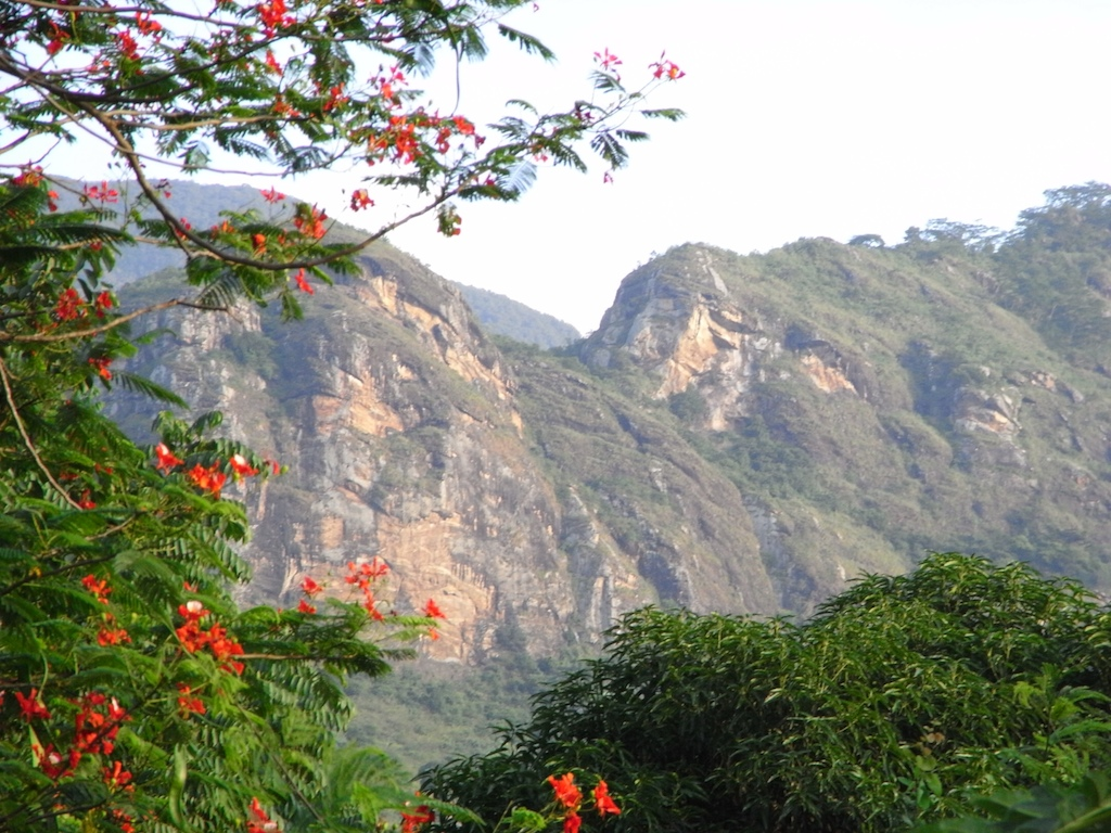 Uluguru Mountains, Tanzania